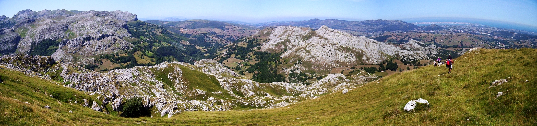 Karst topography in the Cantabrian Mountains. The port city of Santander in the distant right. Alto de Brenas (579 m.). Riotuerto. Cantabria. España